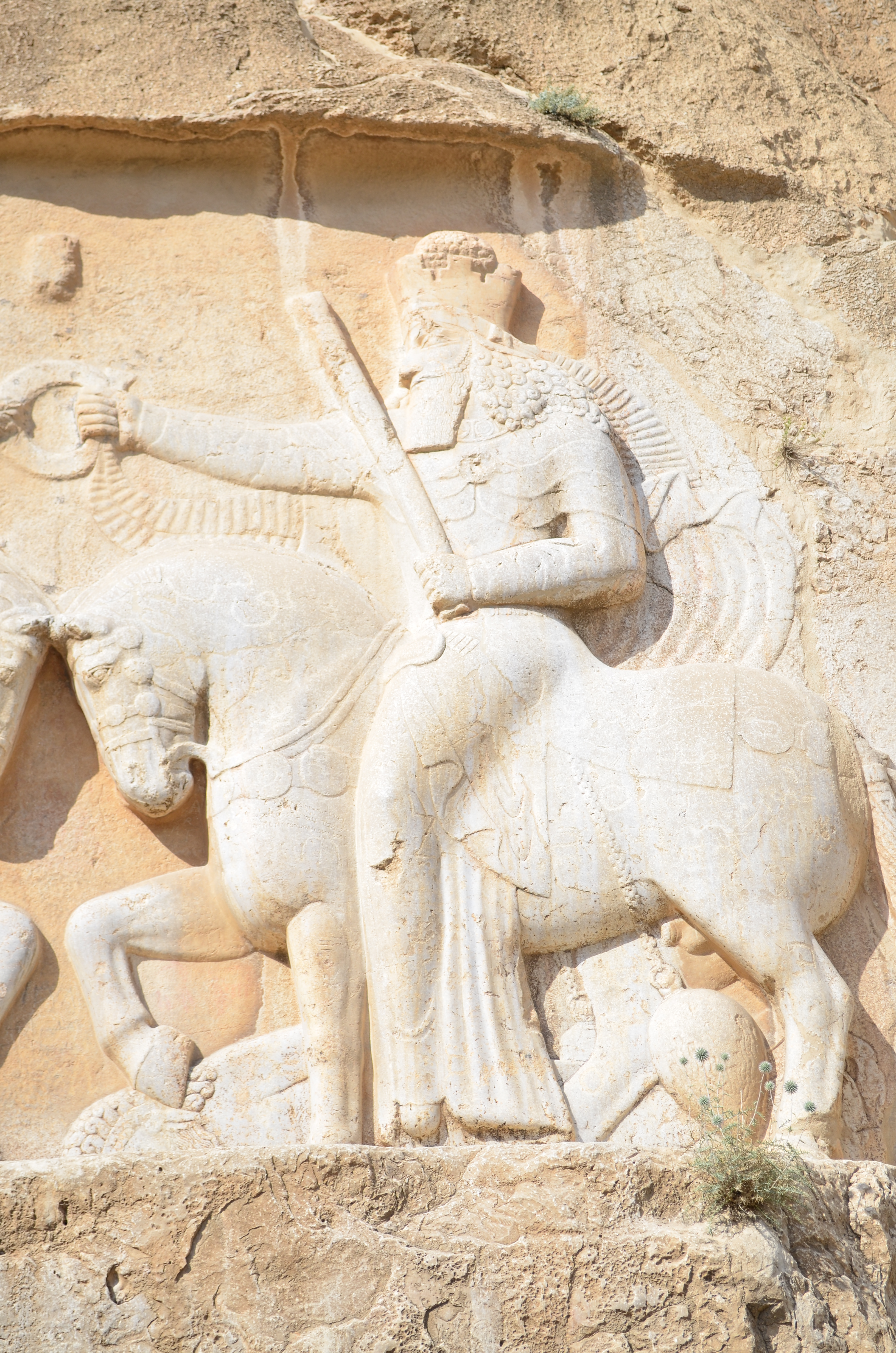 Naqsh-e Rustam